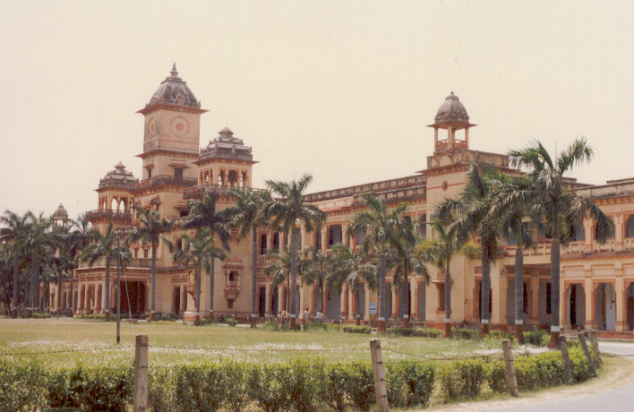 Picture I took circa 1984.